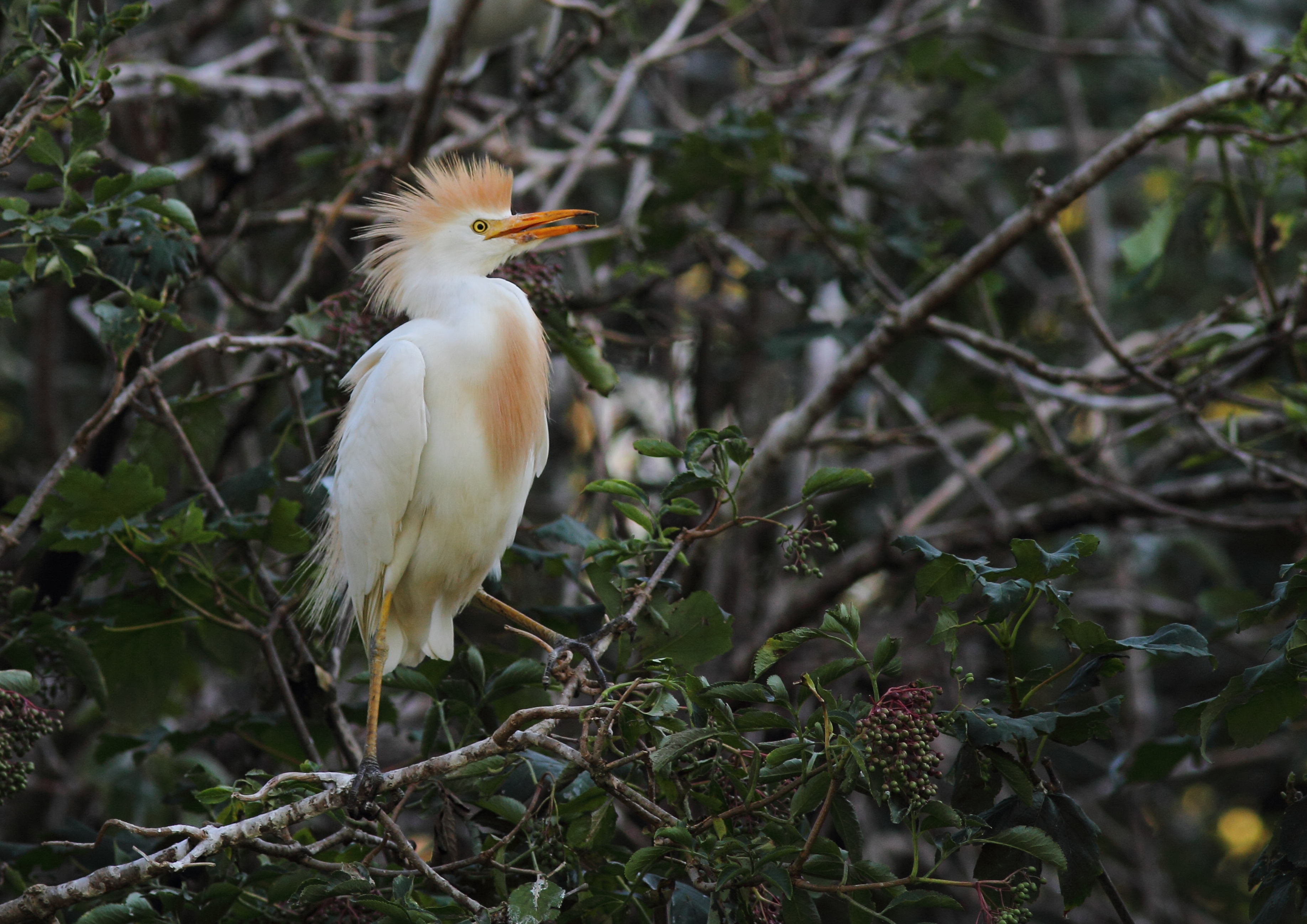 Cattle Egret. Breeding plumage.